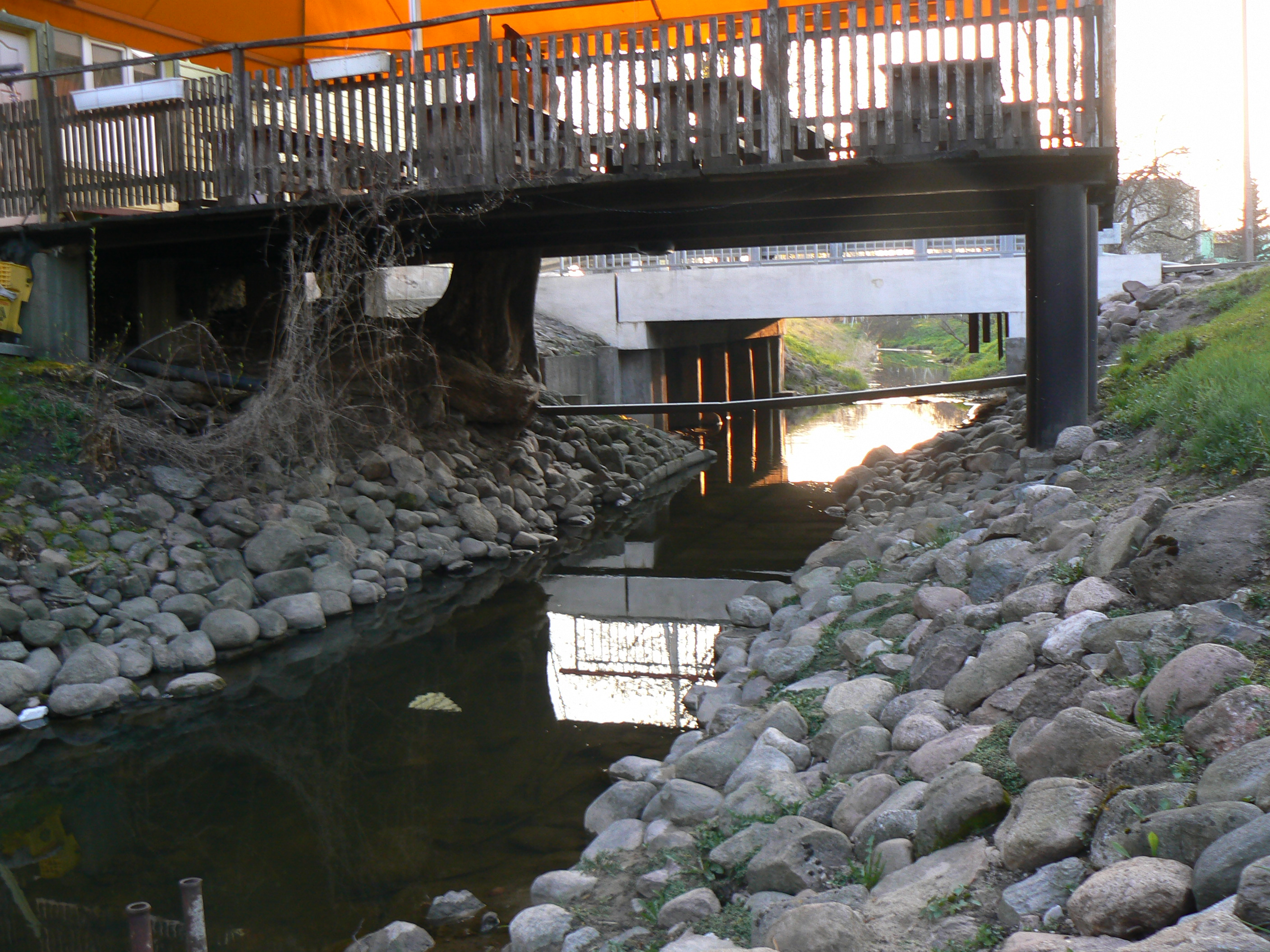 River Darba in Darbėnai